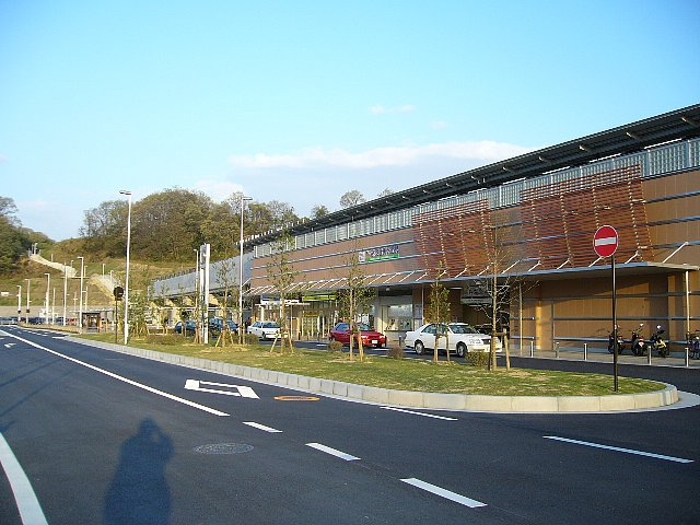 Kintetsu Keihanna Line Gakken Nara-Tomigaoka Station Taken by Bakkai in 20 April 2006.